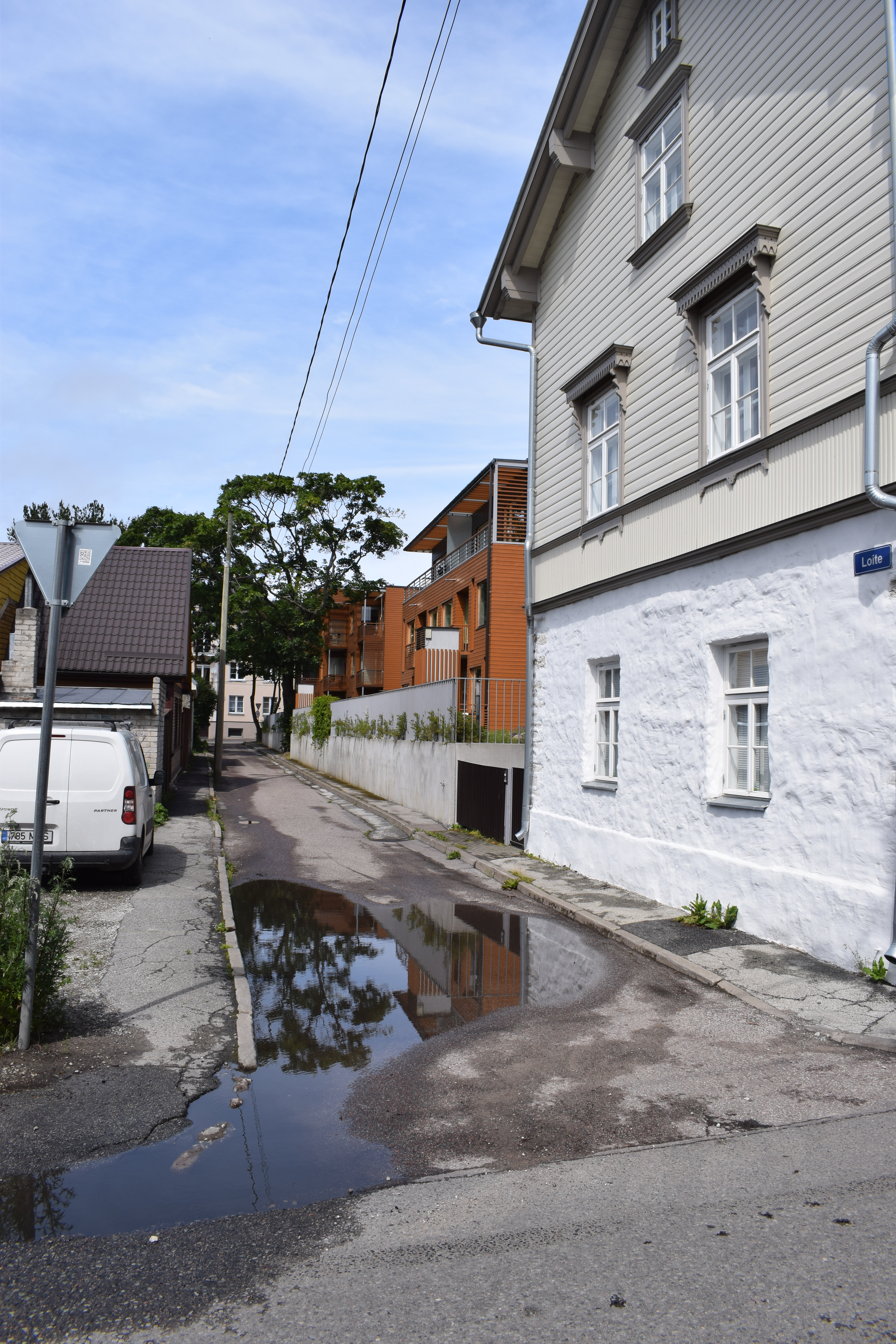 Loite street